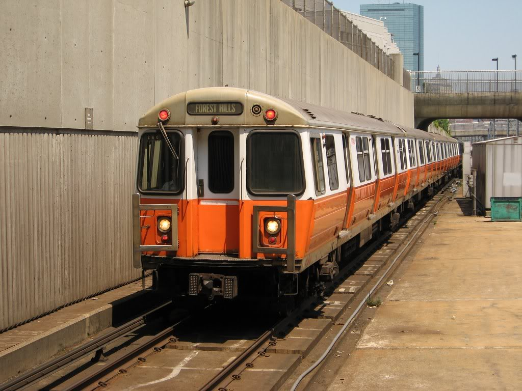 An Orange Line Hawker Siddeley #12 Main Line train led by #01240 enters Ruggles Station.